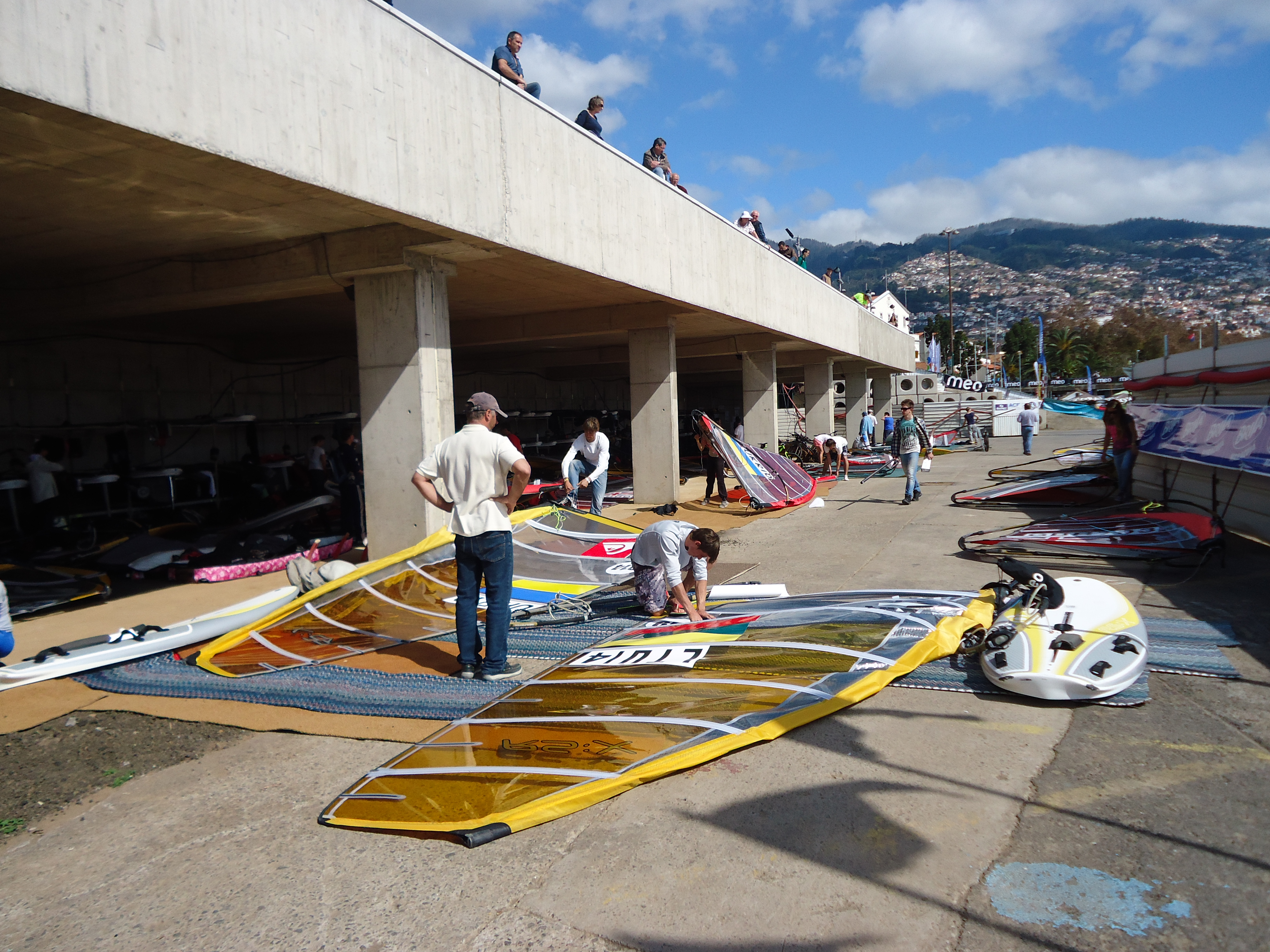 RS:X 2012 European Windsurfing Championship, Funchal, Madeira - Day 1 - Registration & Equipment Check / Practice Race SÃO LÁZARO WATER-SPORTS CENTER, Funchal, Madeira